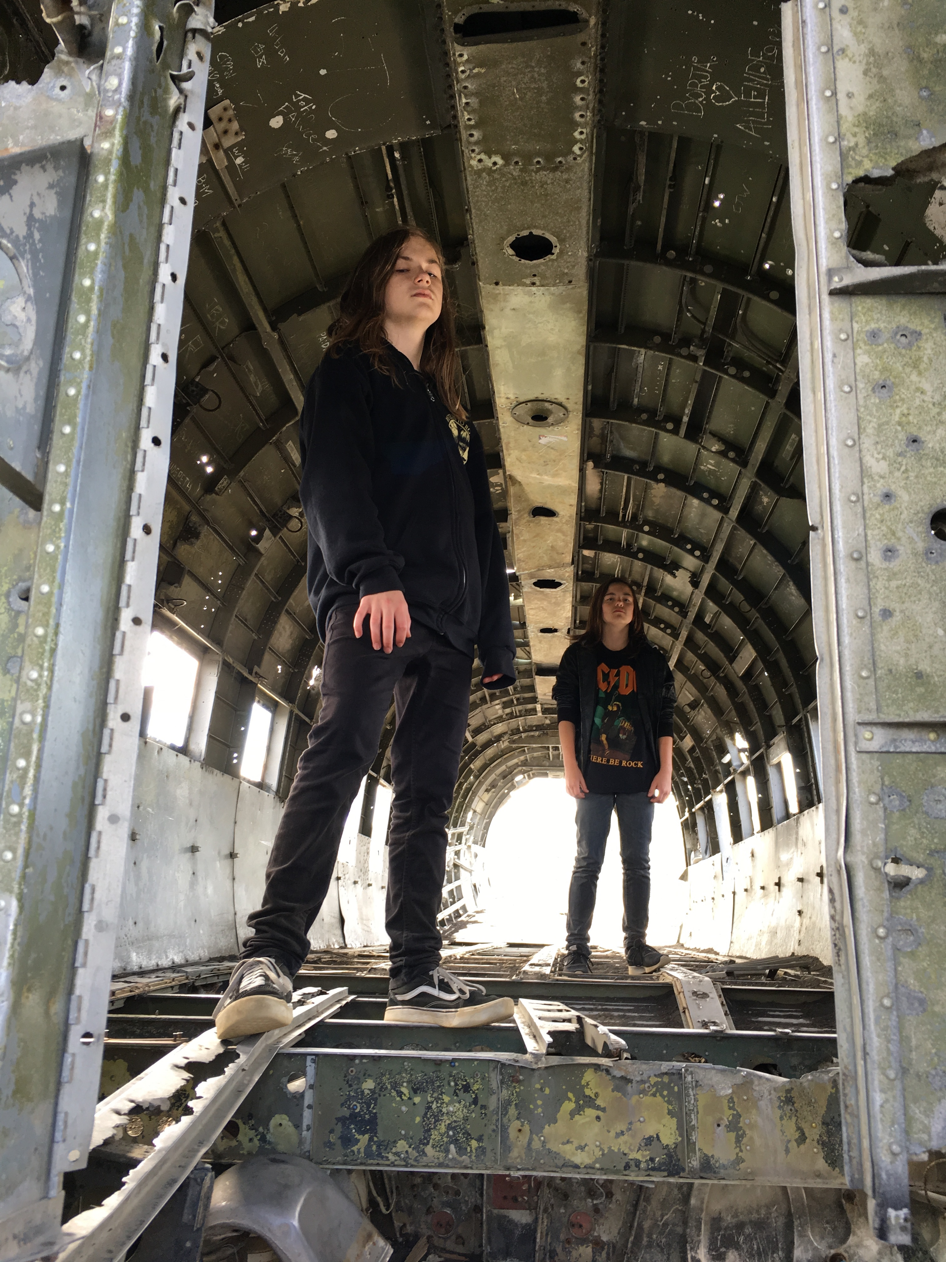 Norwegian stoner metal band Golden Core in Iceland 2017. Photo by Jon Julius Sandal 2017